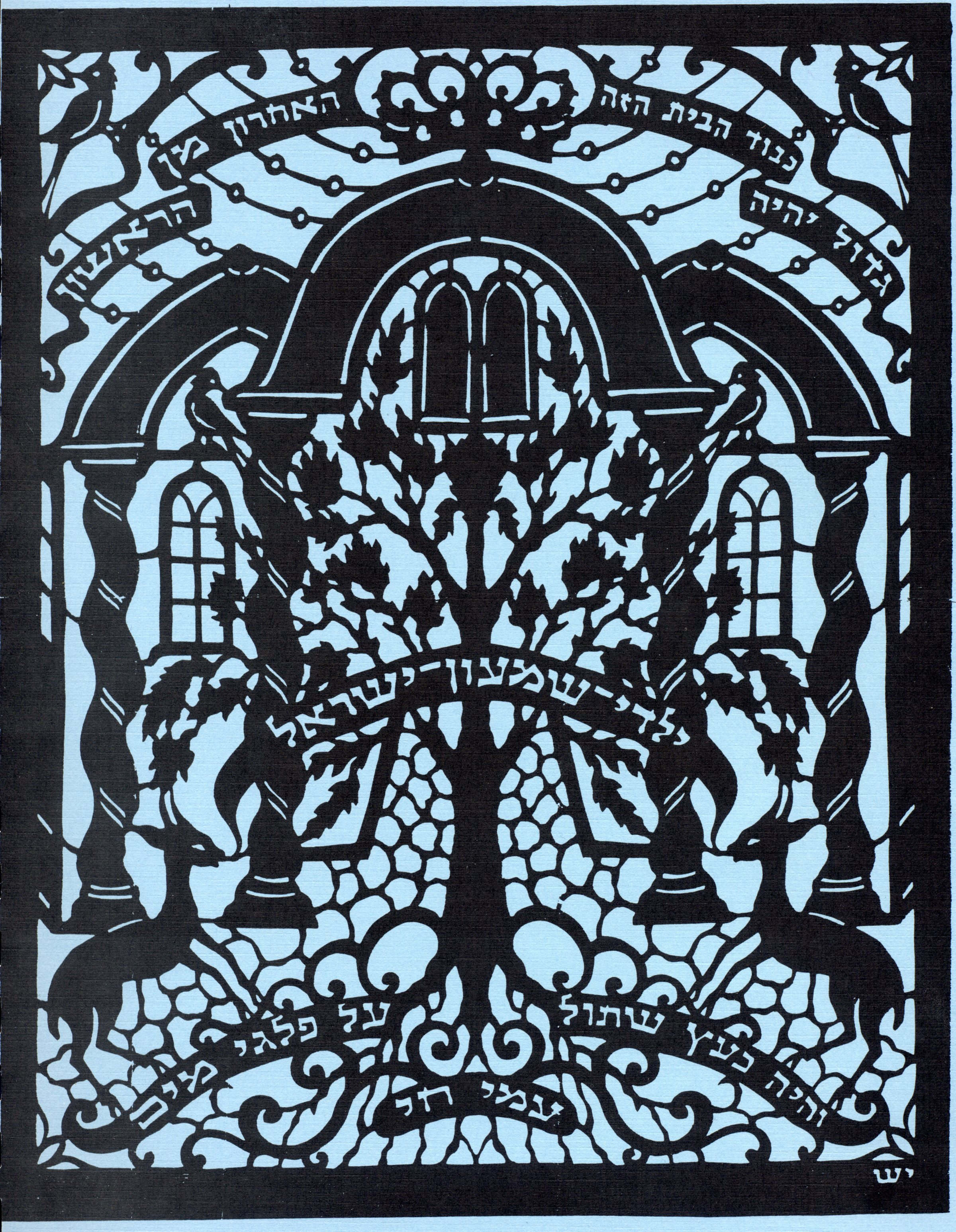 The cover of the family tree book created by Yehudit Shadur for Stan Stein of the Milwaukee Steins